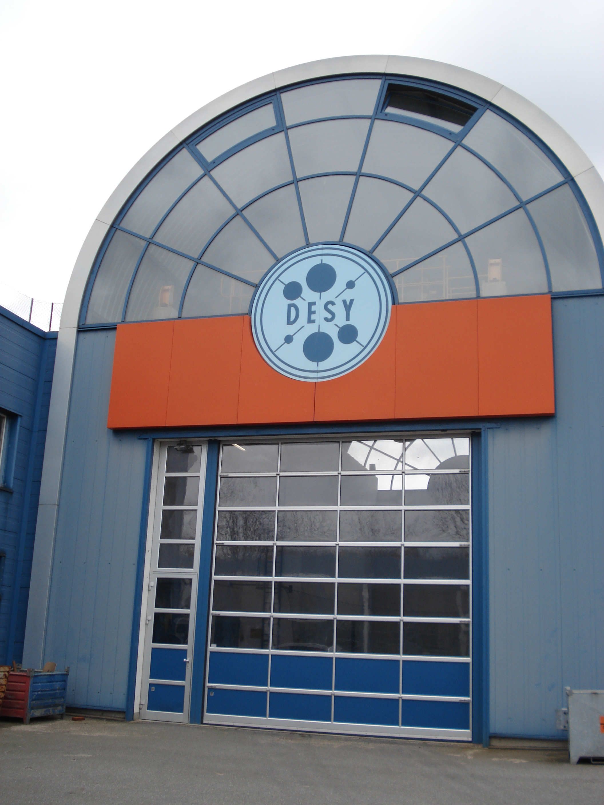 This is the ZEUS hall where the ZEUS experiment is located